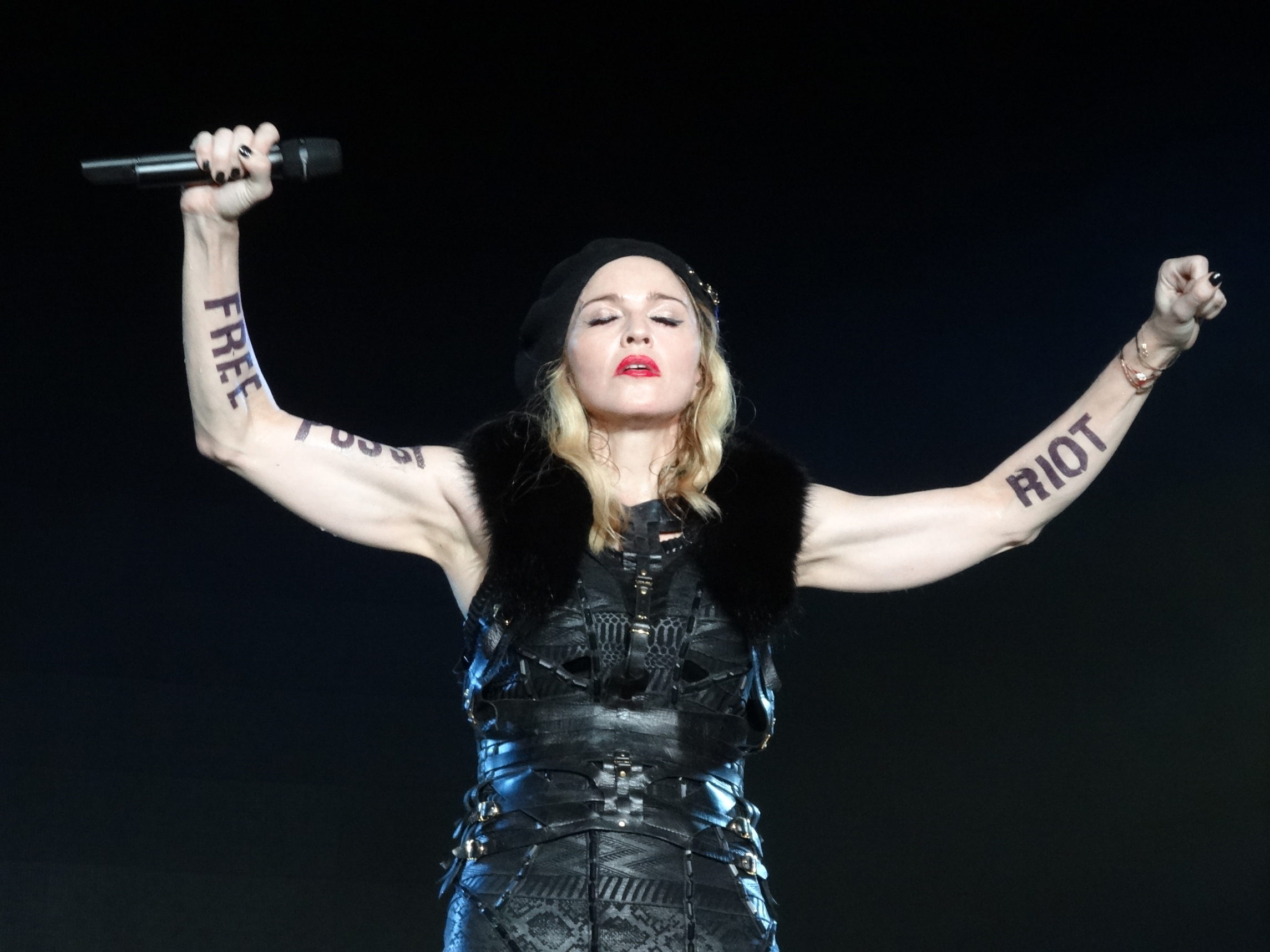 Madonna during her concert in Nice as part of her MDNA Tour on August 21, 2012.